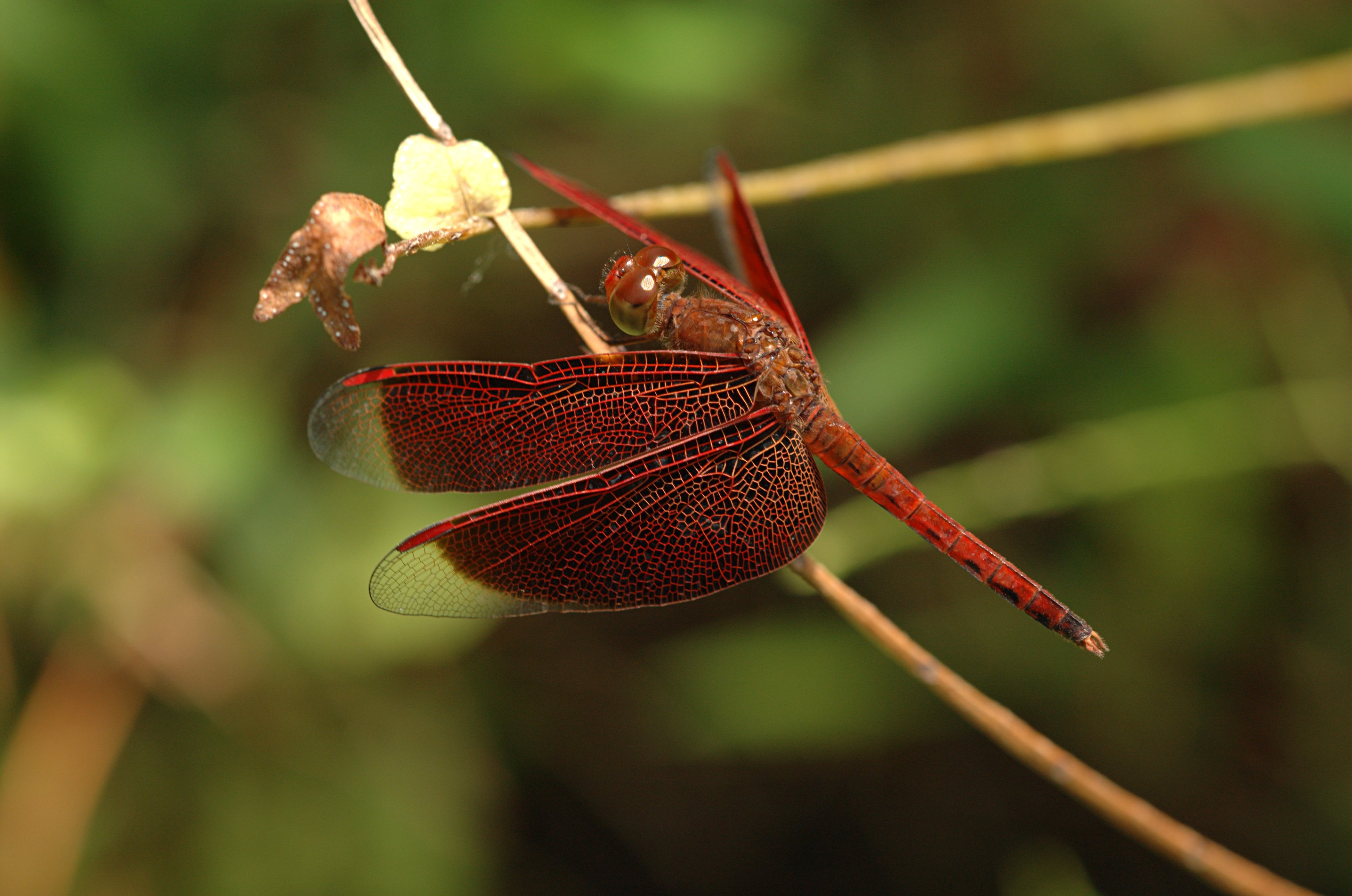 Neurothemis fluctuans dragonfly, Kuala Lumpur Lake Gardens, Malaysia.